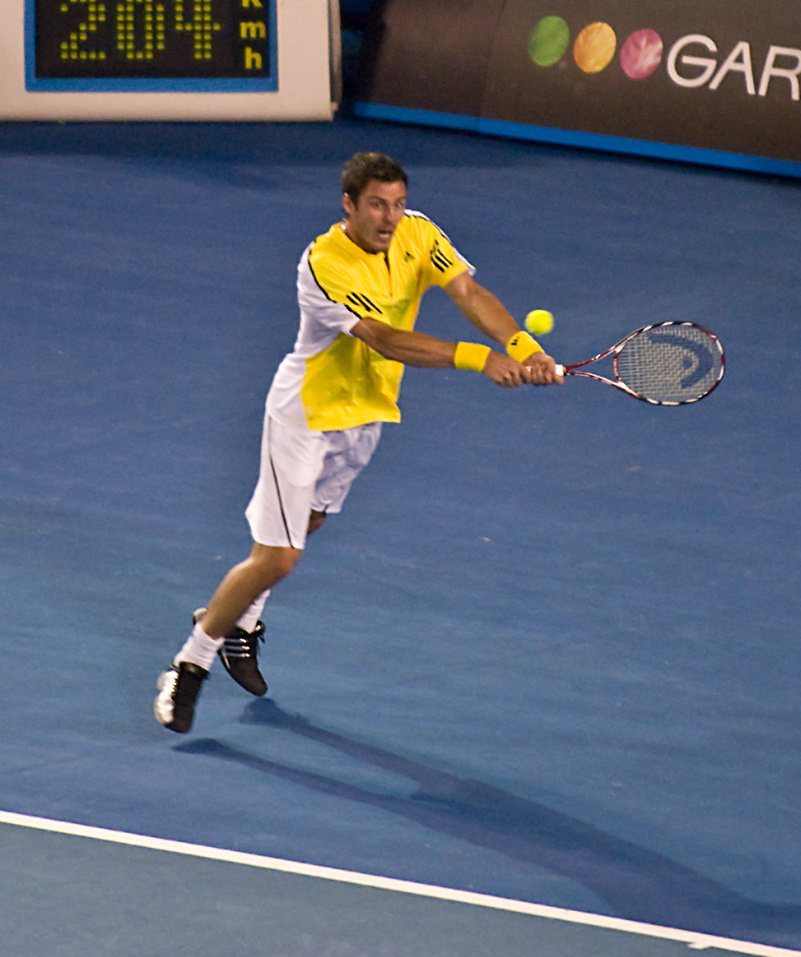 Marat Safin at 2009 Australian Grand Prix, Melbourne, Australia